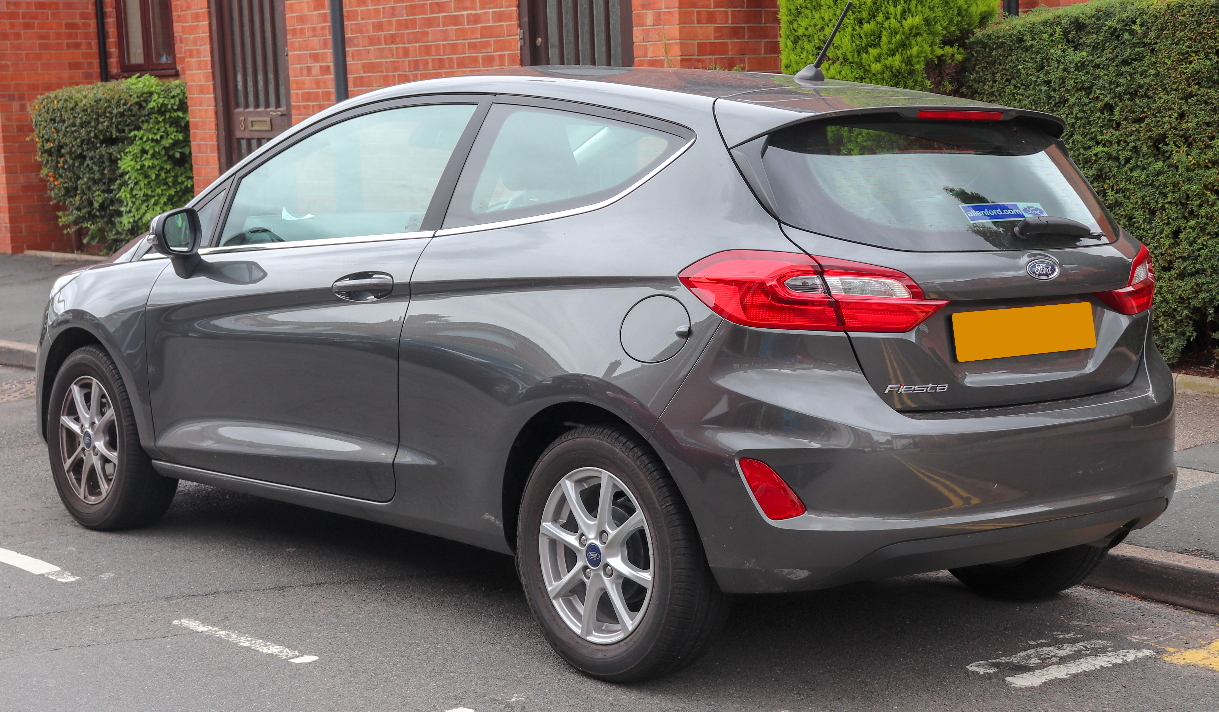 2017 Ford Fiesta Zetec 1.1 Rear (Early 17 Reg) Taken in Warwick